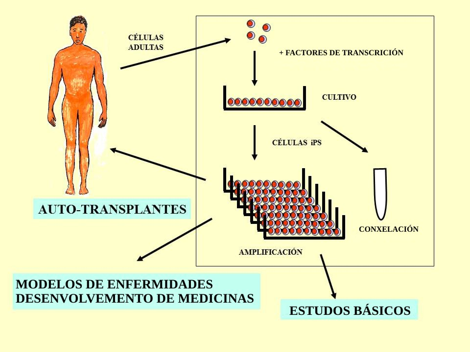 sten cells uses